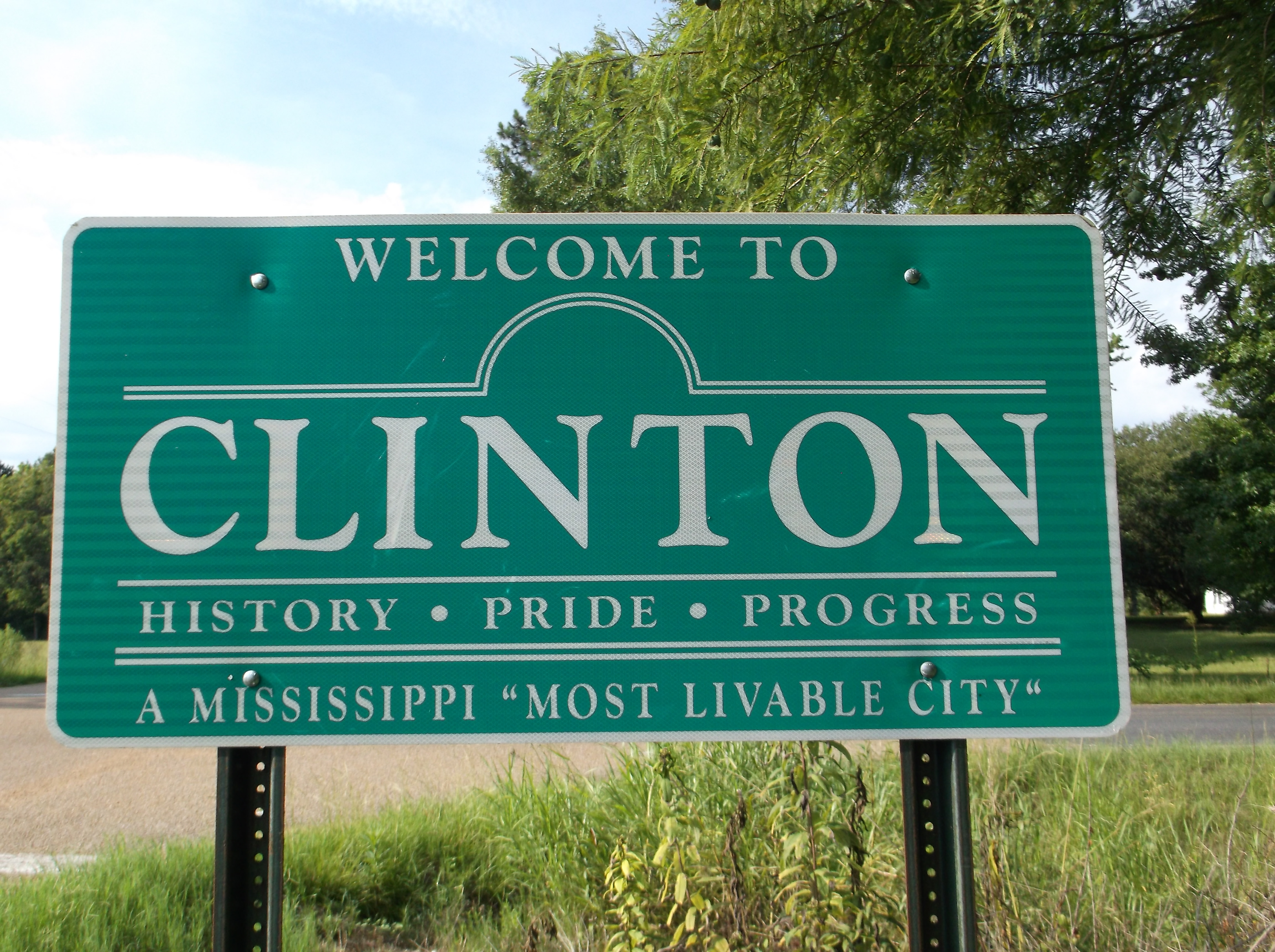 Sign located on Pinehaven Road